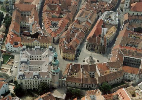 Sopron, Hungary, aerialphotography